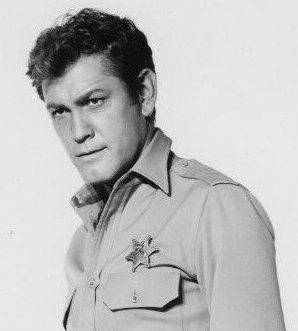 A promotional shot of Golden Globe winning film and TV actor Earl Holliman for The Trap